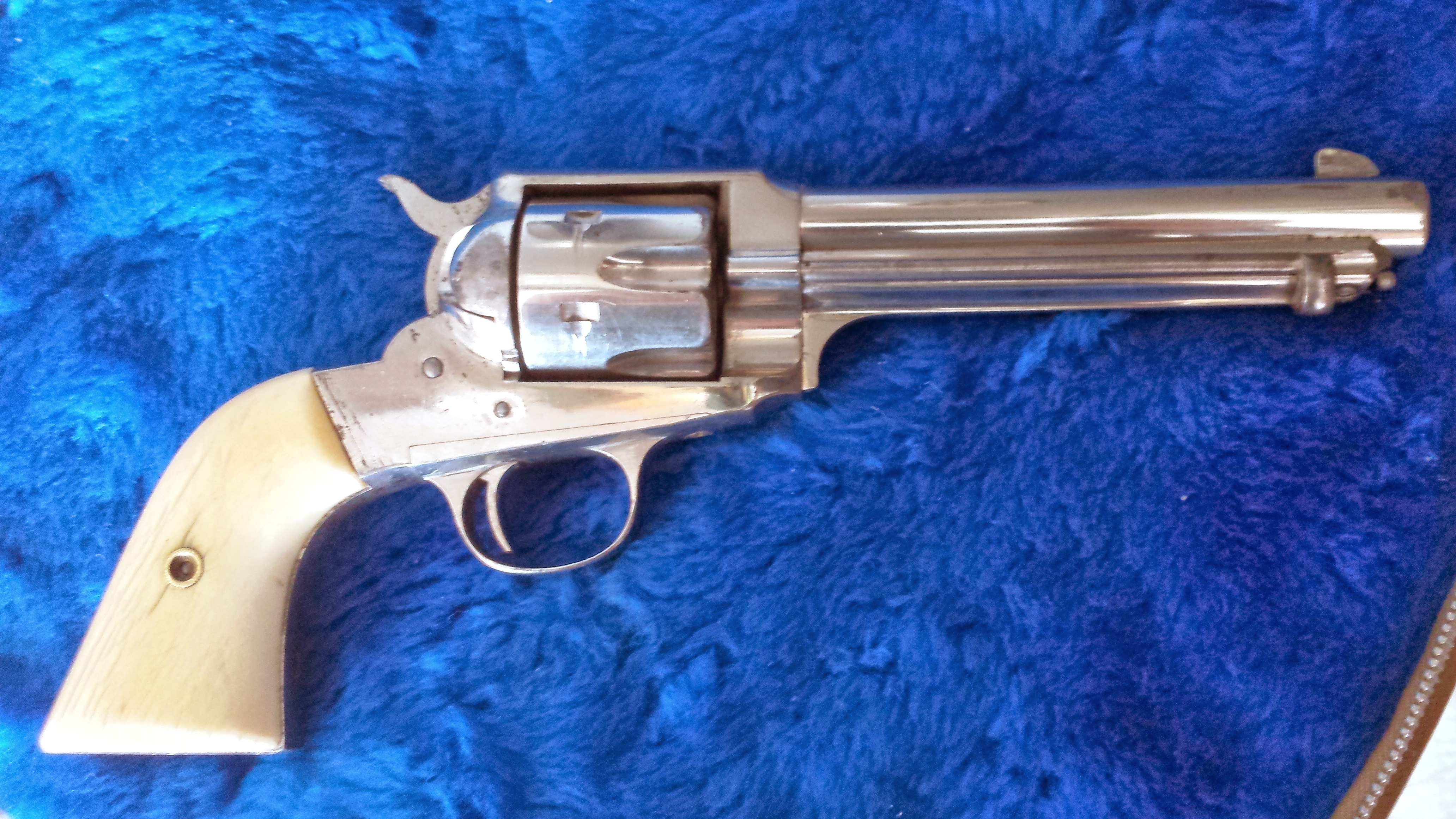 Remington Nickel Model 1888 Pistol